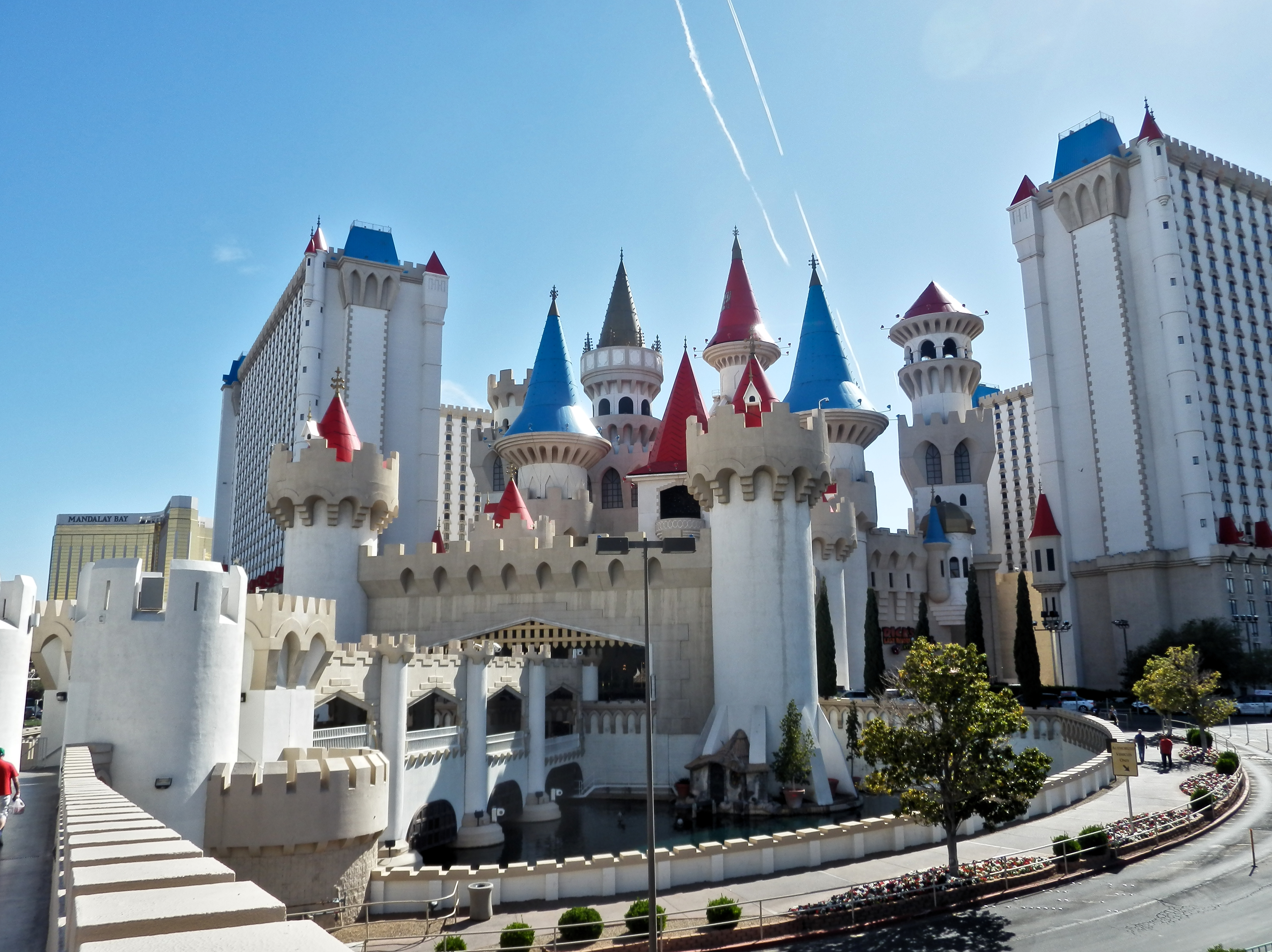 Excalibur in Las Vegas